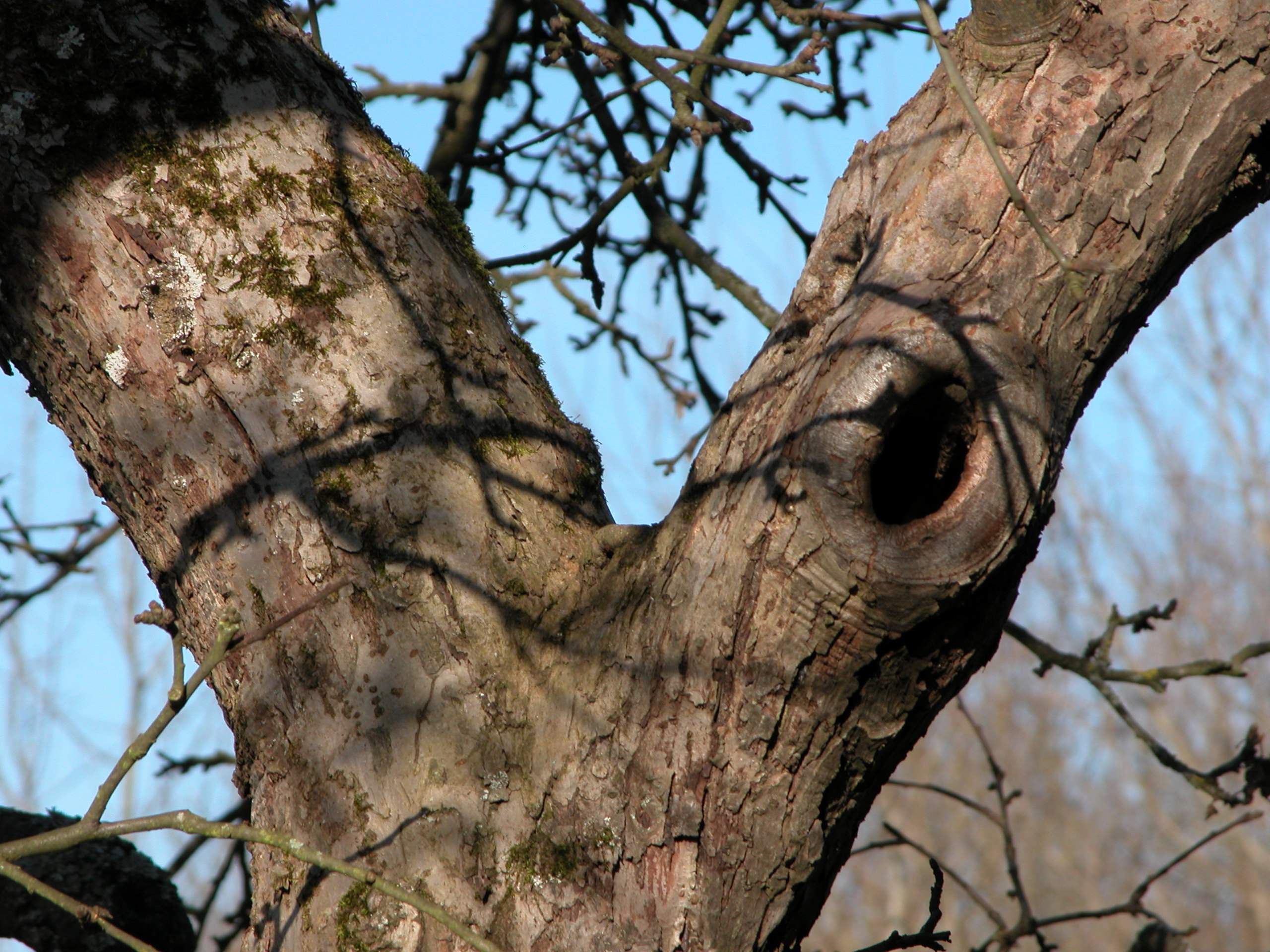 Open air museum Roscheider Hof, Germany, orchards